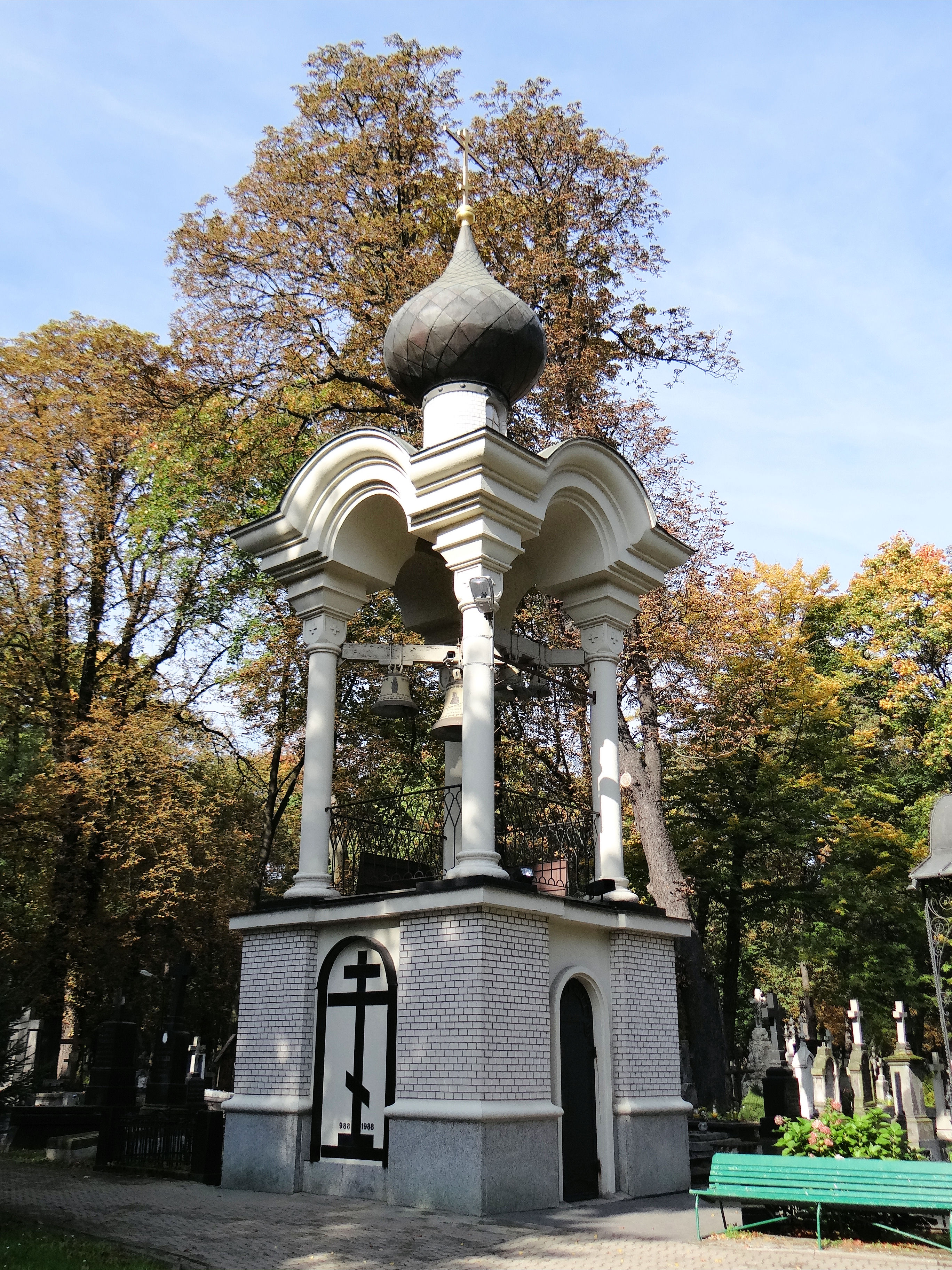 Belfry of Orthodox church of St. John Climacus in Warsaw